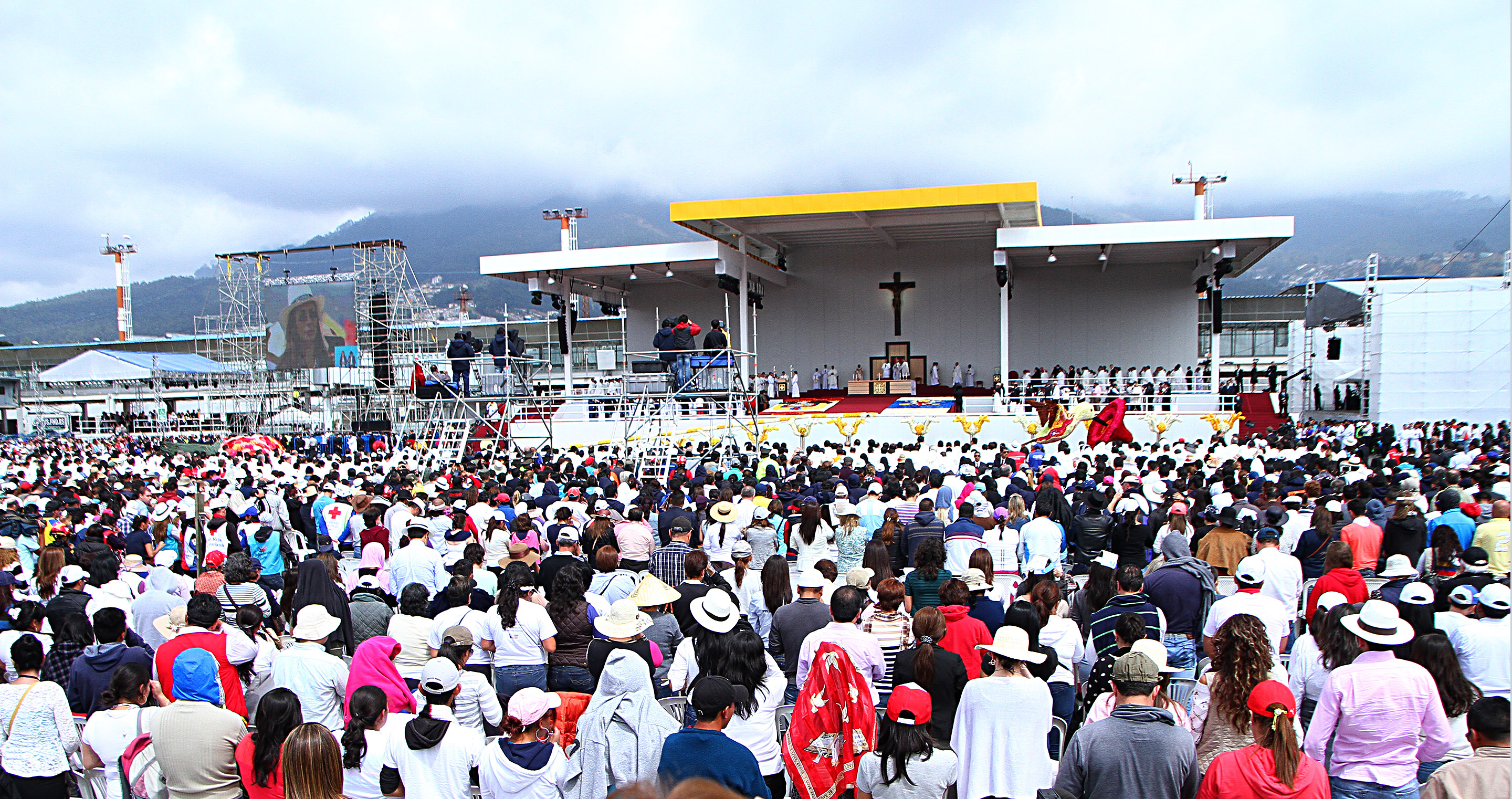 MISA CAMPAL BICENTENARIO